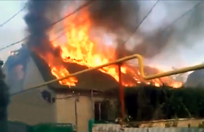 Shelled house in Donbass.